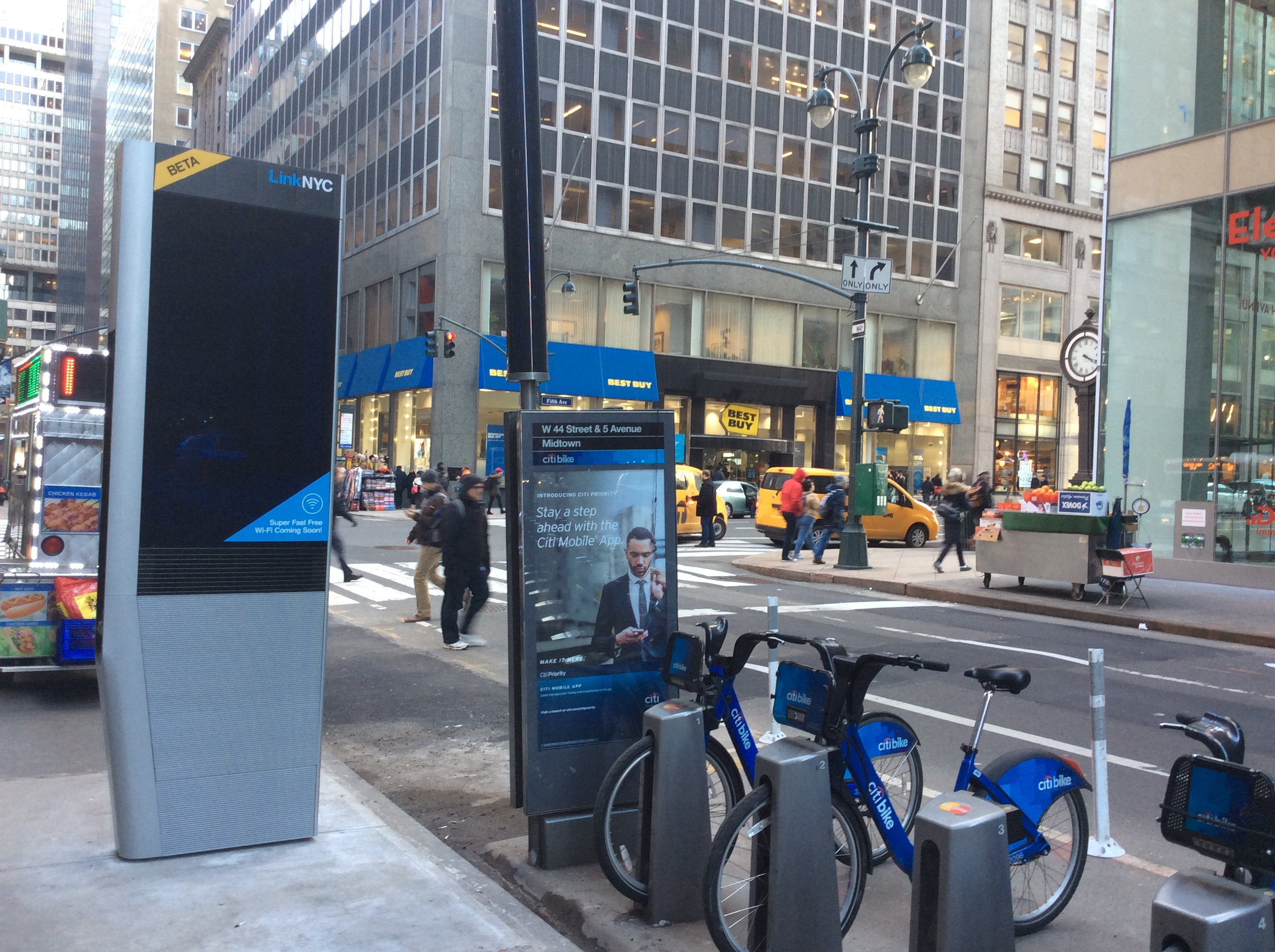 Citibike stall and LinkNYC kiosk at 44 St near 5 Av in Manhattan, February 2017